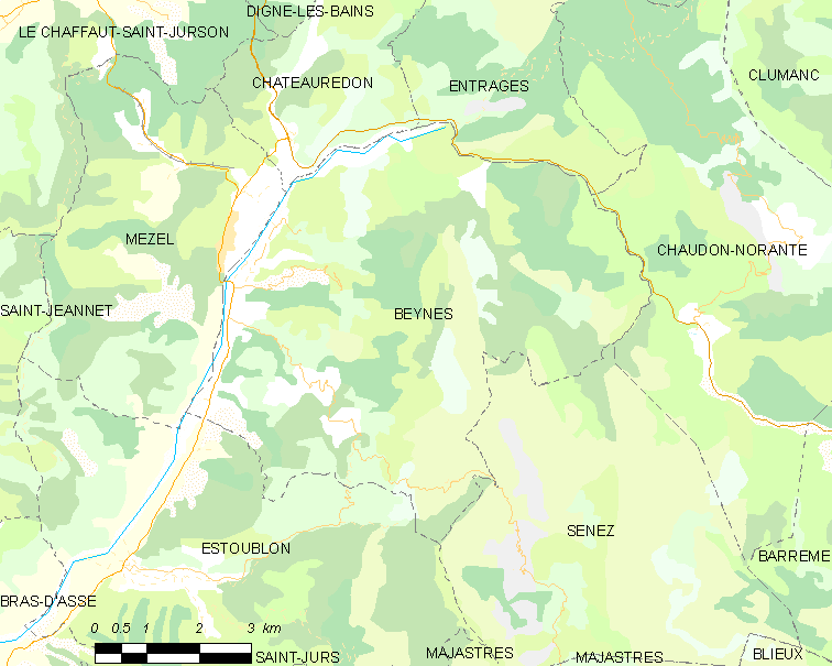 Map commune FR insee code 04028.png Légende